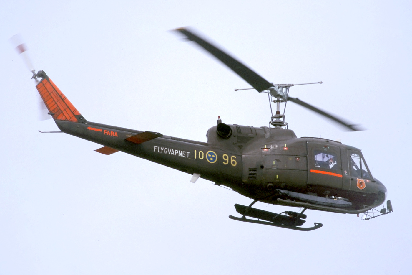 Ljungbyhed, 25 August 1996. One of my personal highlights. Two Hkp 3B Agusta Bells 204B's came from F 10 Ängelholm to Ljungbyhed for the airshow. This one (03426) is preserved at Luleå-Kallax AFB.